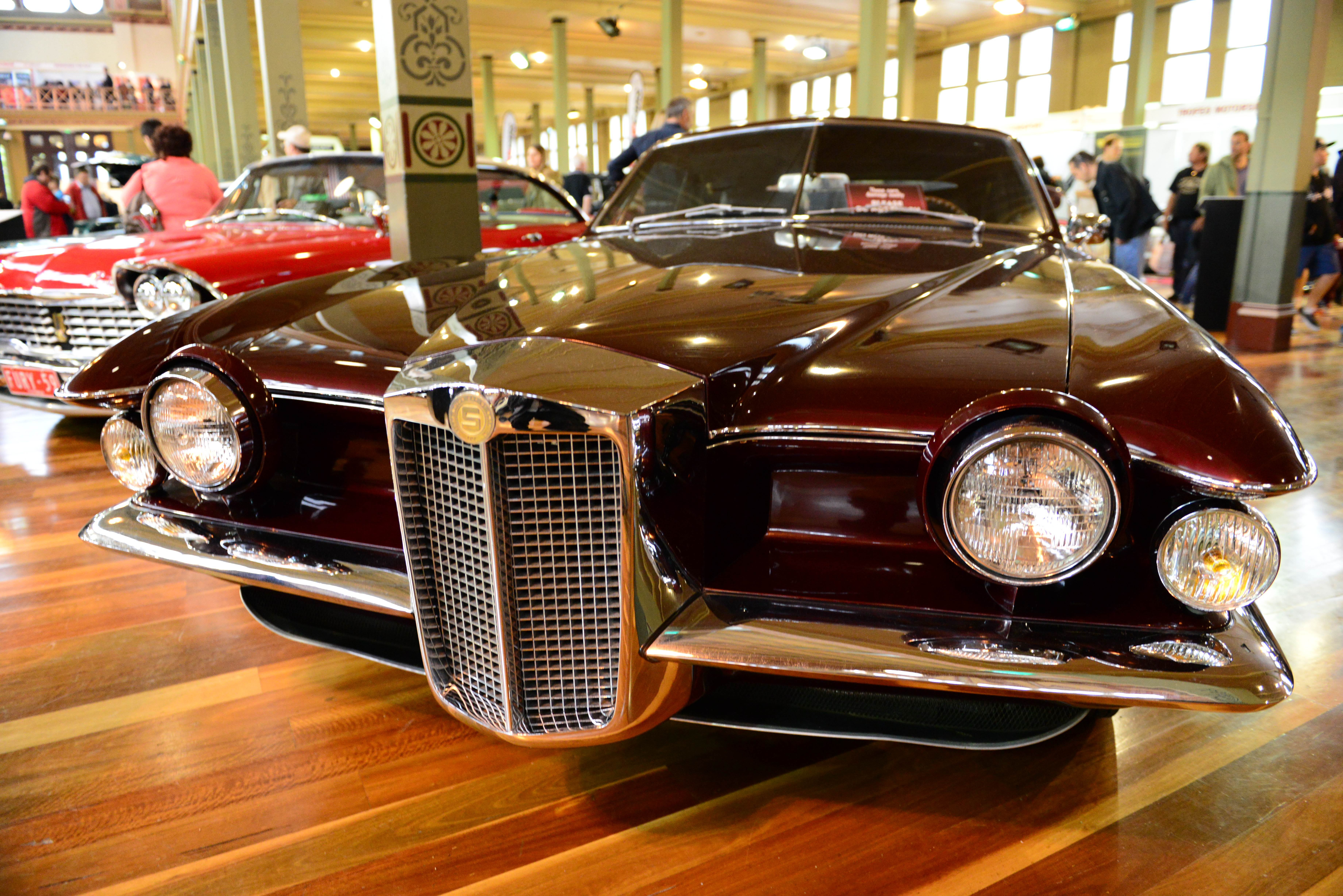 P-01 PRESERVATION During the mid 60s Virgil Exner published a series of avant grande automobile designs in Esquire magazine depicting a series of "revival cars" based in essence on the grand classics from the thirties including the luxurious and expensive Duesenberg. These designs were produced as model toys by the Renwal Company including the design which was destined to become the Stutz Blackhawk. This particular design was selected for the revival of Stutz because it incorporated designed elements emulating the Stutz cars of the thirties. A prototype was built in 1968 by Ghia and a second prototype was constructed thereafter and sold to the first customer, Elvis Presley. The 1971 Blackhawks were also hand built and assembled at Carrozzeria Padane in Modena, Italy who collaborated with Ghia in building Maserati vehicles and were priced in the range of $25~30,000 - more than twice the price of an average American home. According to sources, there were approximately no more than 26 Blackhawks built in 1971 and only 14 are accounted for in the worldwide Stutz registry. This particular example is rare amongst its breed and it is reported to be the only one produced in burgundy. It it also reported to be the only example to have been optioned with a Paxton supercharger from new. (Info from the podium near by).